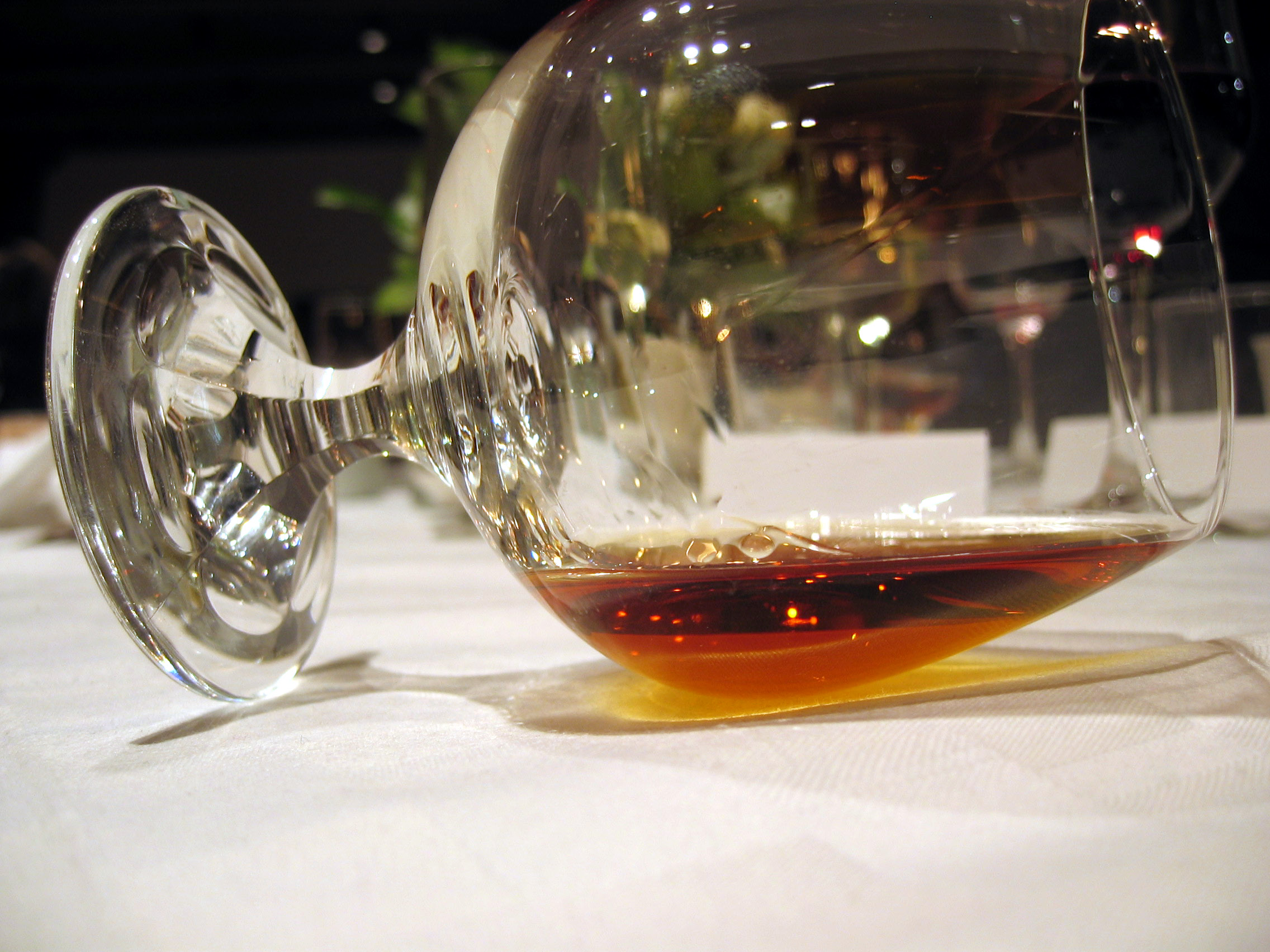 A glass of cognac